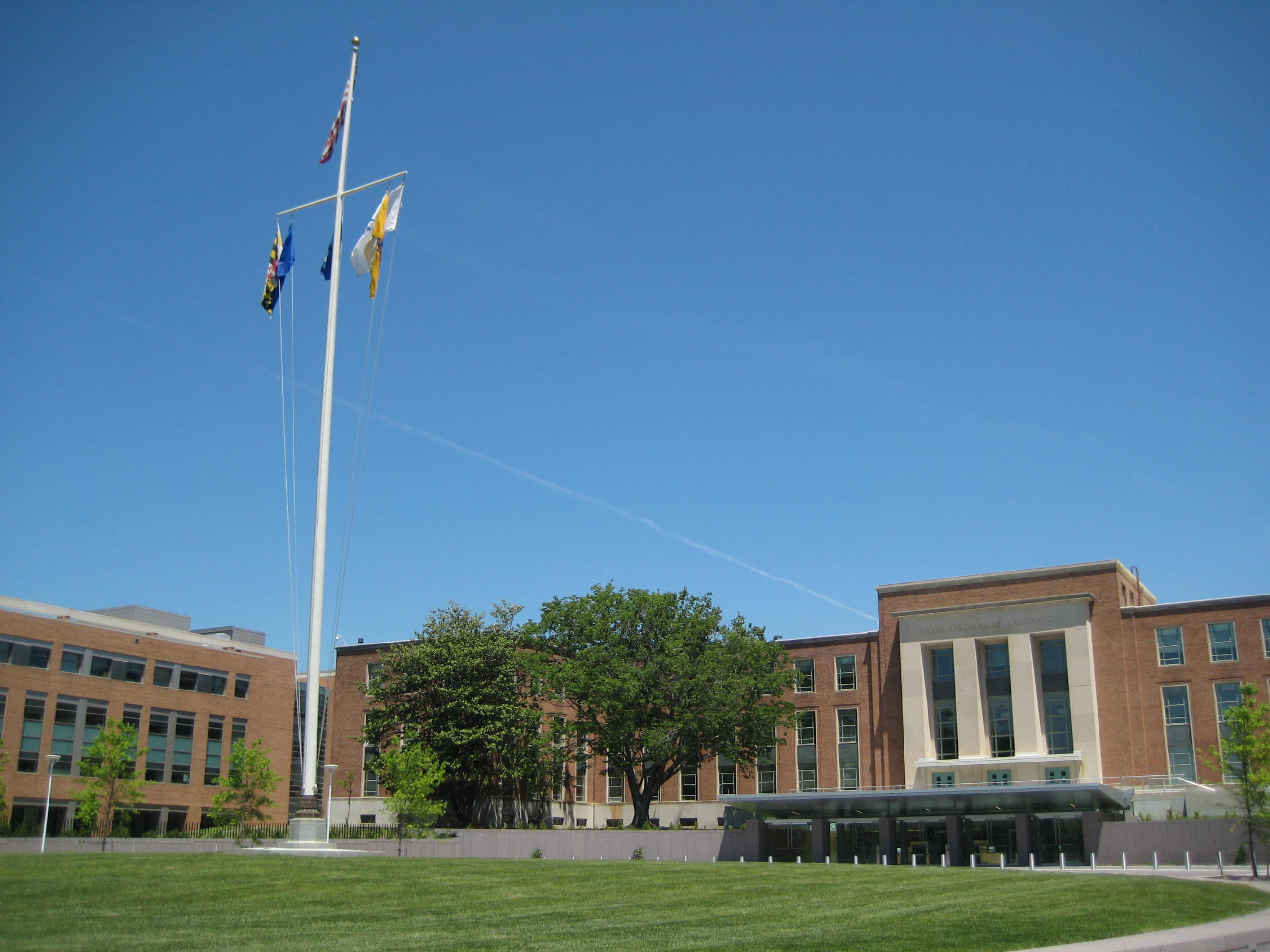 FDA Building 1 (right) houses the Commissioner’s office and FDA Senior Staff. Building 21 (left) houses offices for the Center for Drug Evaluation and Research. The FDA campus is located at 10903 New Hampshire Ave., Silver Spring, MD 20993.